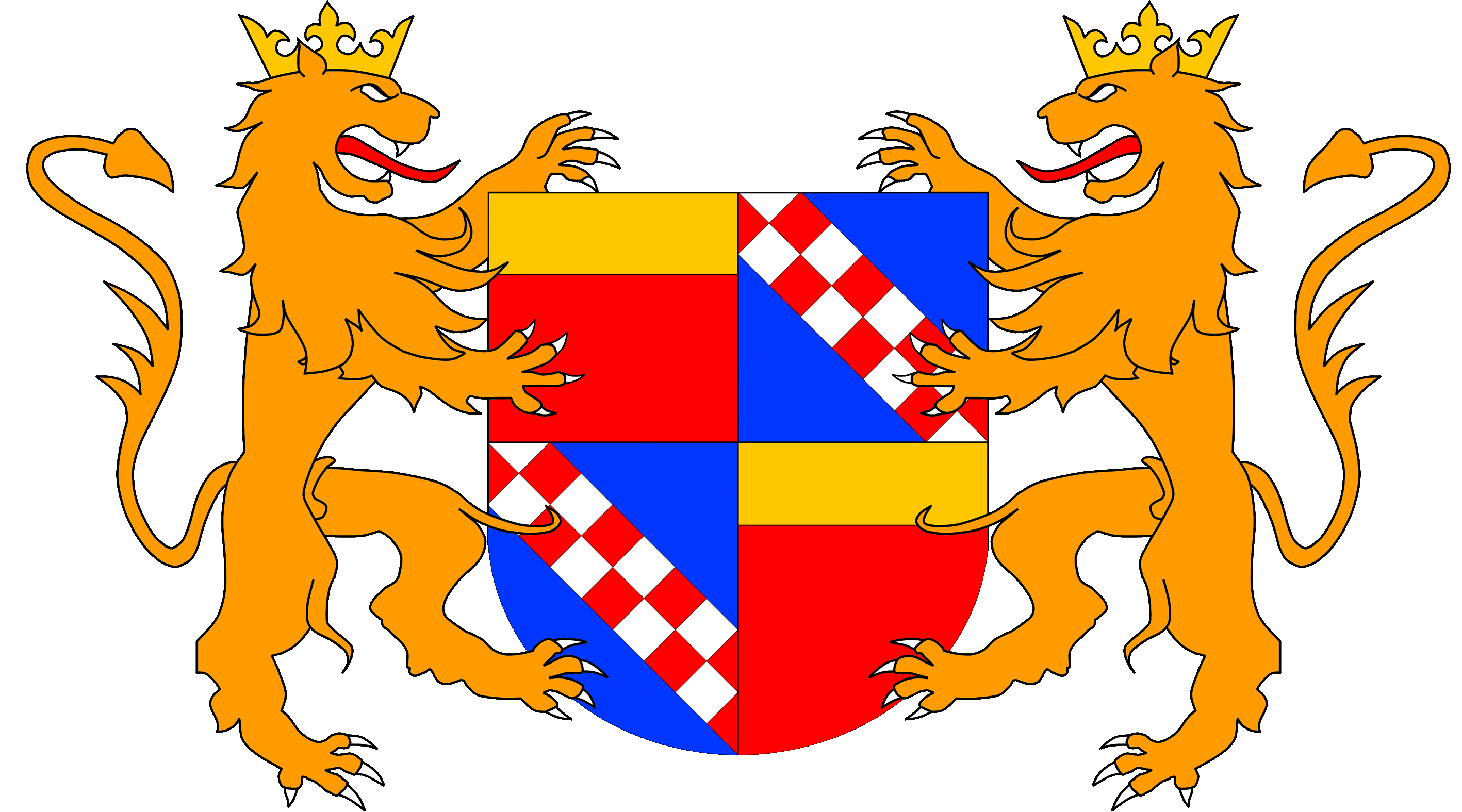 Blasón del Marquesado de Irache, con errores